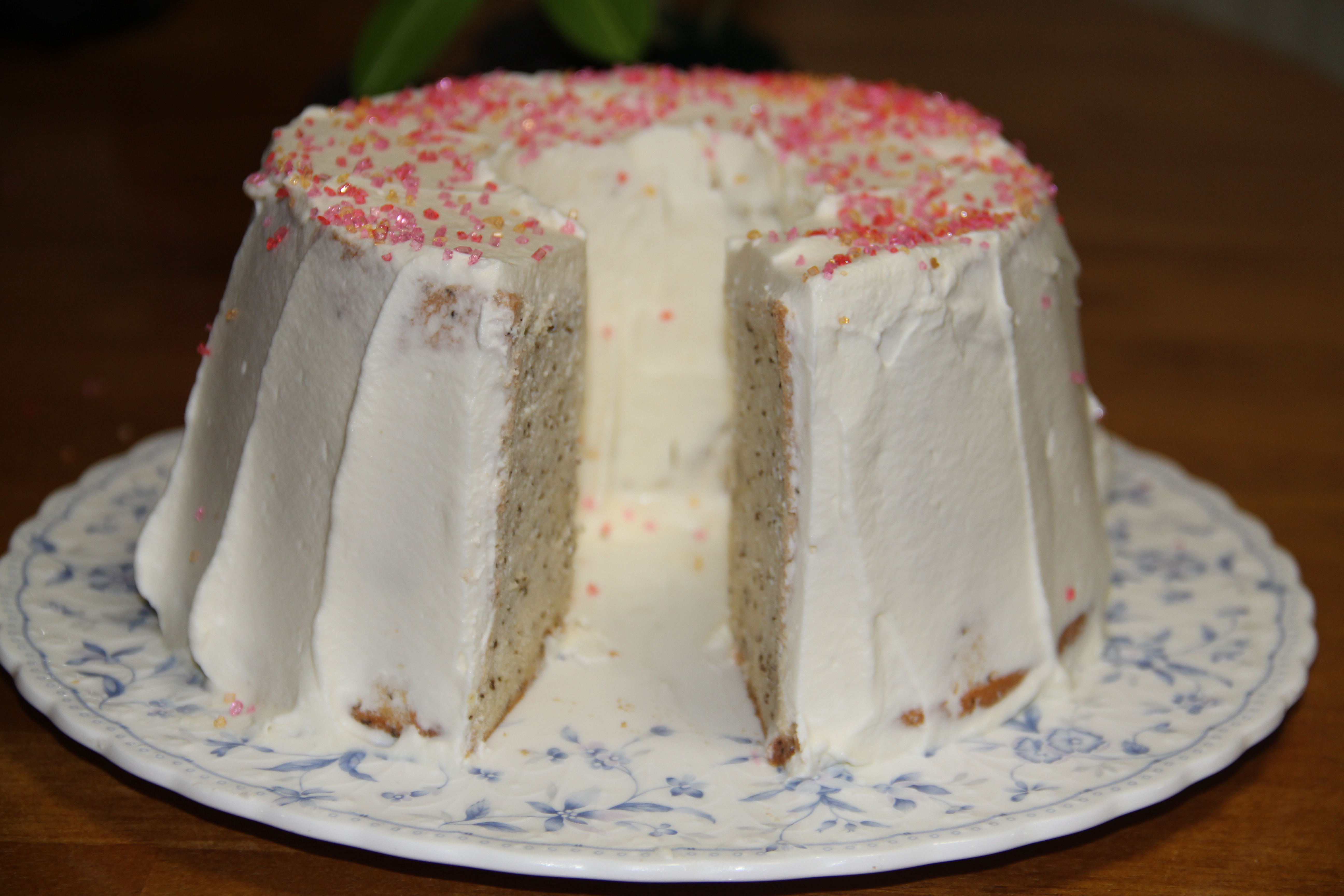 Making Chiffon cake